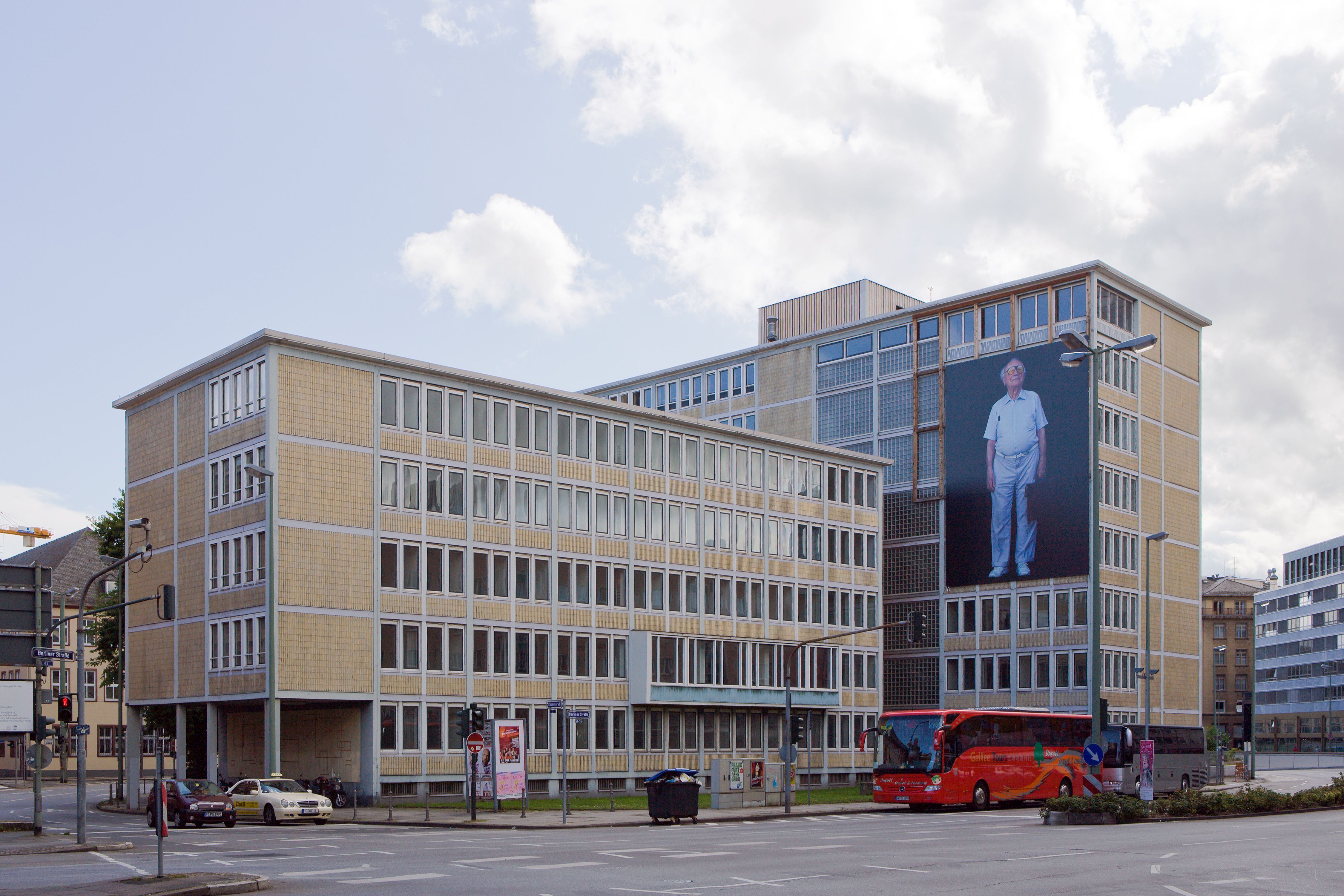 Frankfurt on the Main: Former building of the Bundesrechnungshof (Federal Court of Auditors) as seen from the street corner Kornmarkt (Grain Market) / Berliner Strasse (Berlin Street)